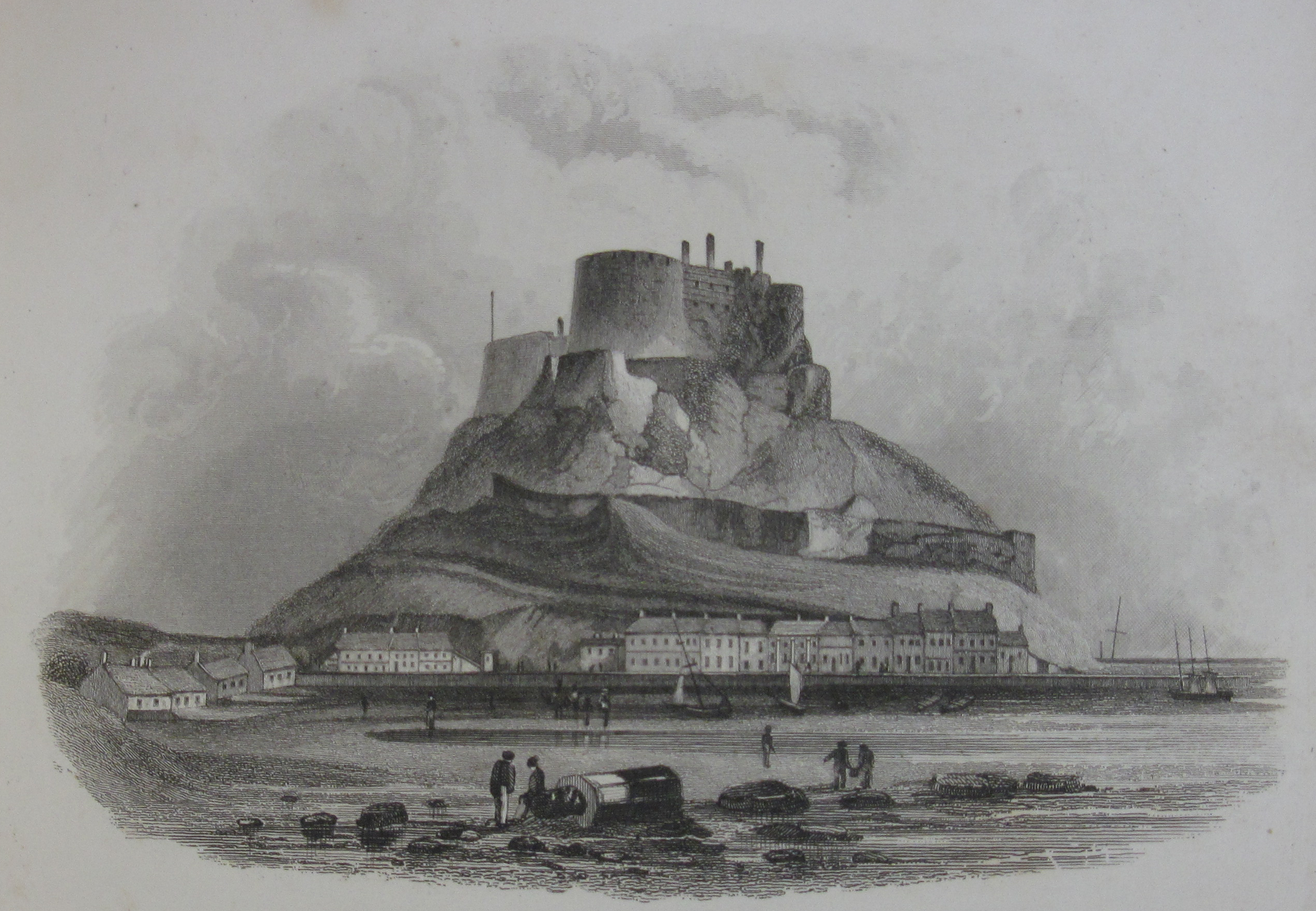 Illustration from Historical and Topographical Description of the Channel Islands (1840) by Robert Mudie - "Mount Orgueil, Jersey"